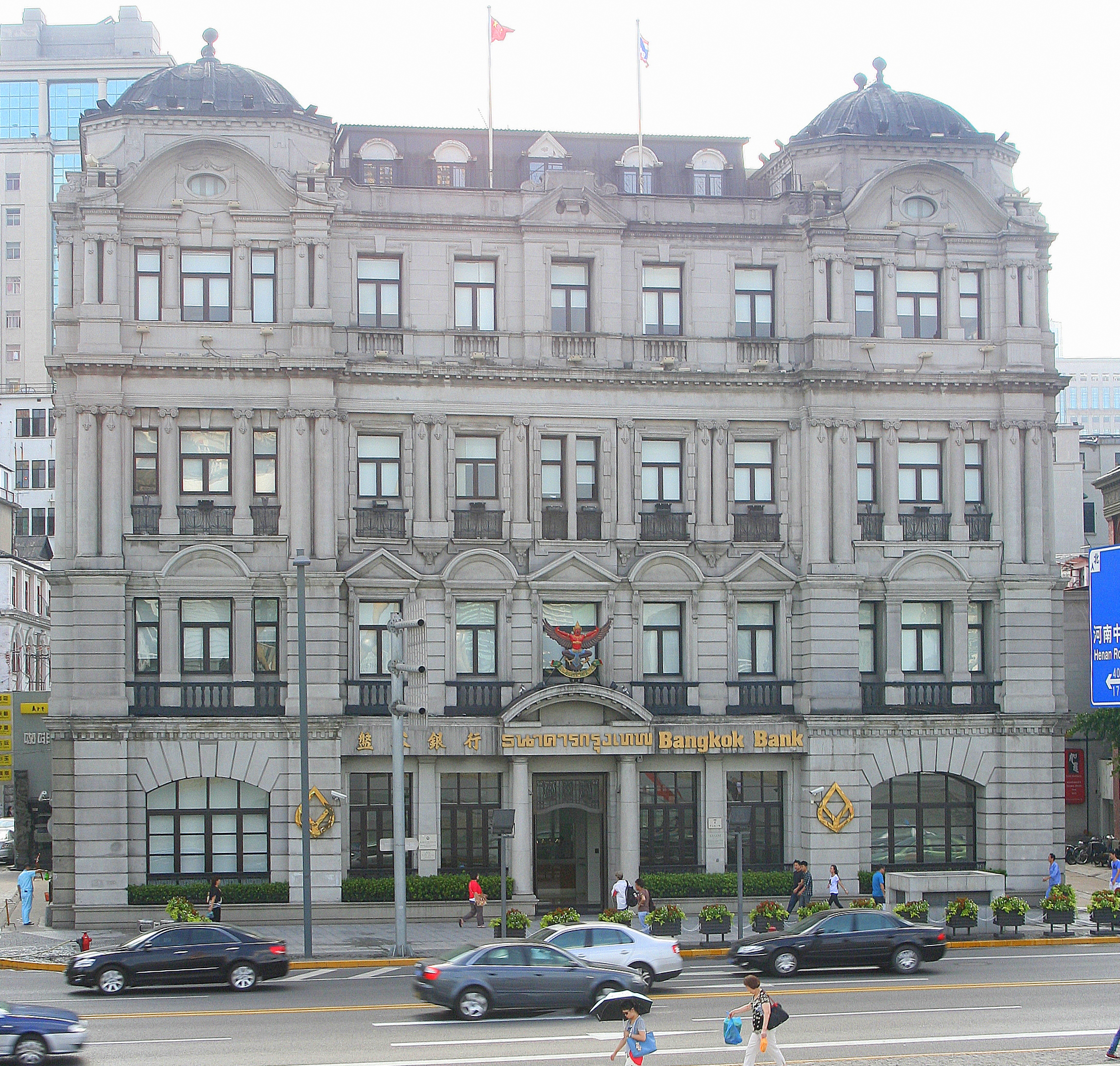 This is a picture of the Bangkok Bank and the Thai consulate in Shanghai, as seen from its front. It is located at #7, The Bund. It was originally the headquarters of the The Great Northern Telegraph Company.